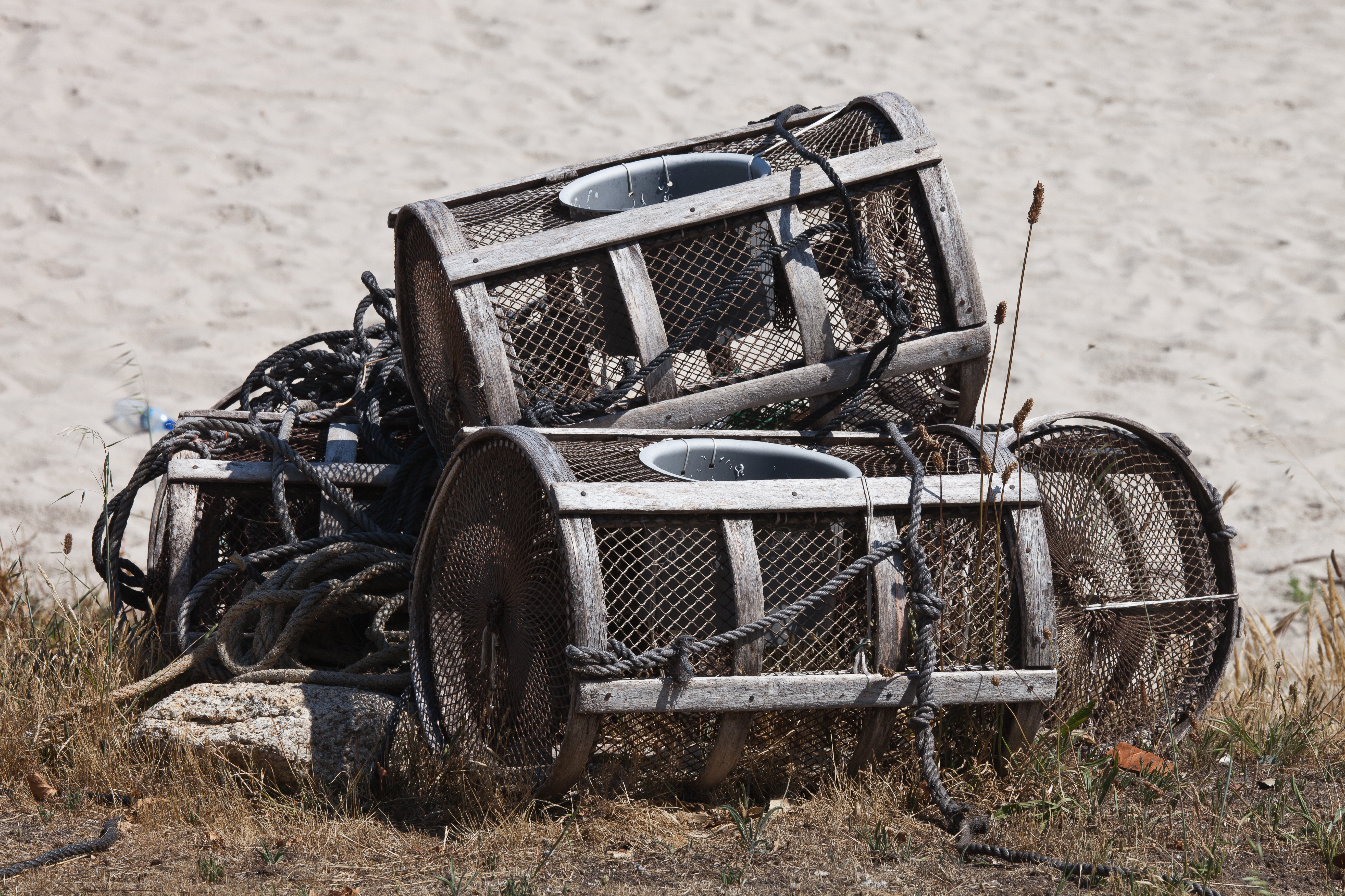 Fish trap, Beach of Louro, Santiago de Louro, Muros, Galicia (Spain)